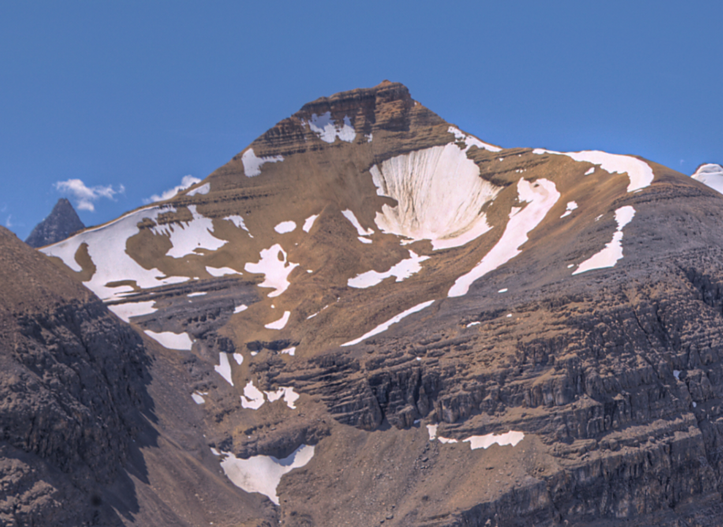 Canadian Rocky Mountains landscape